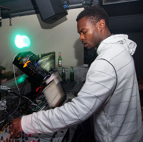 Photo of electronic music artist Darren J. Cunningham aka Actress. It has been cropped from the source image.